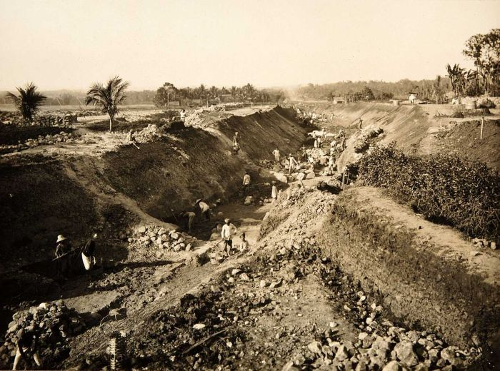 Railway under construction near Jatinangor